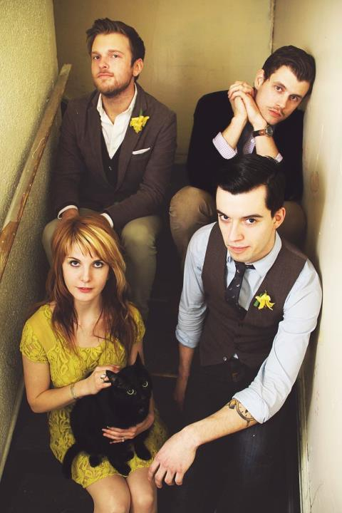 This is picture of Mike Mains & The Branches with a cat.